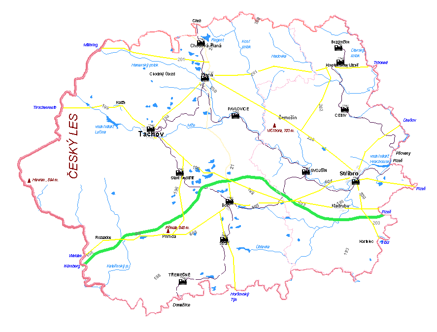 Map of Tachov district, Czech republic